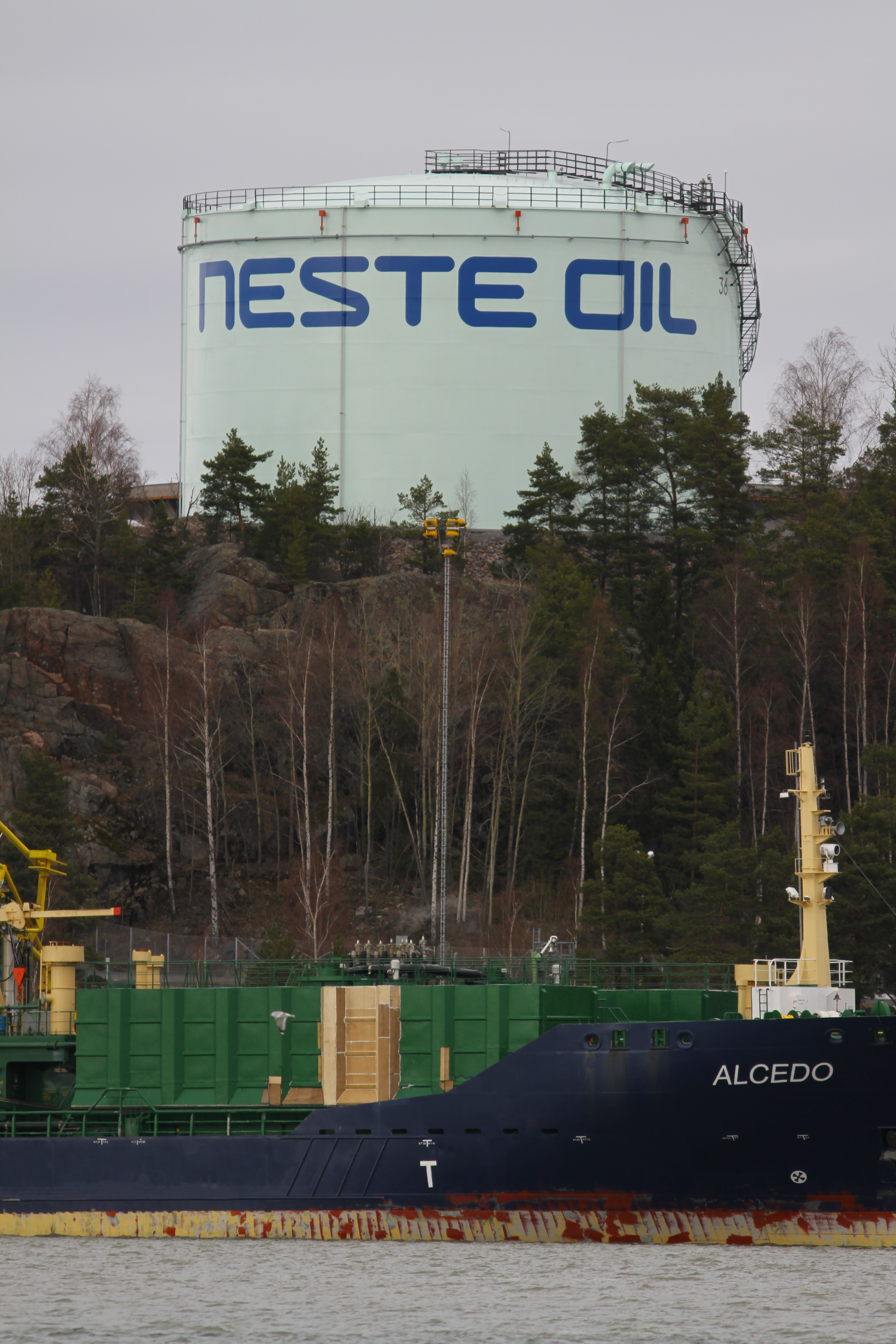 Tupavuori Tank Area and M/S Alcedo. Neste Oil's Naantali refinery is located at Naantali in western Finland, close to Turku.